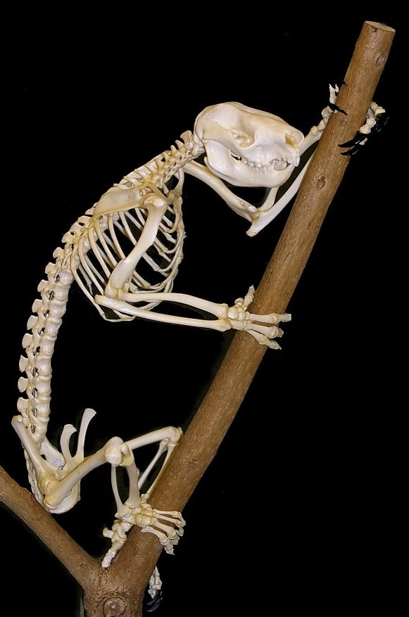 Koala Skeleton prepared by Skulls Unlimited International.